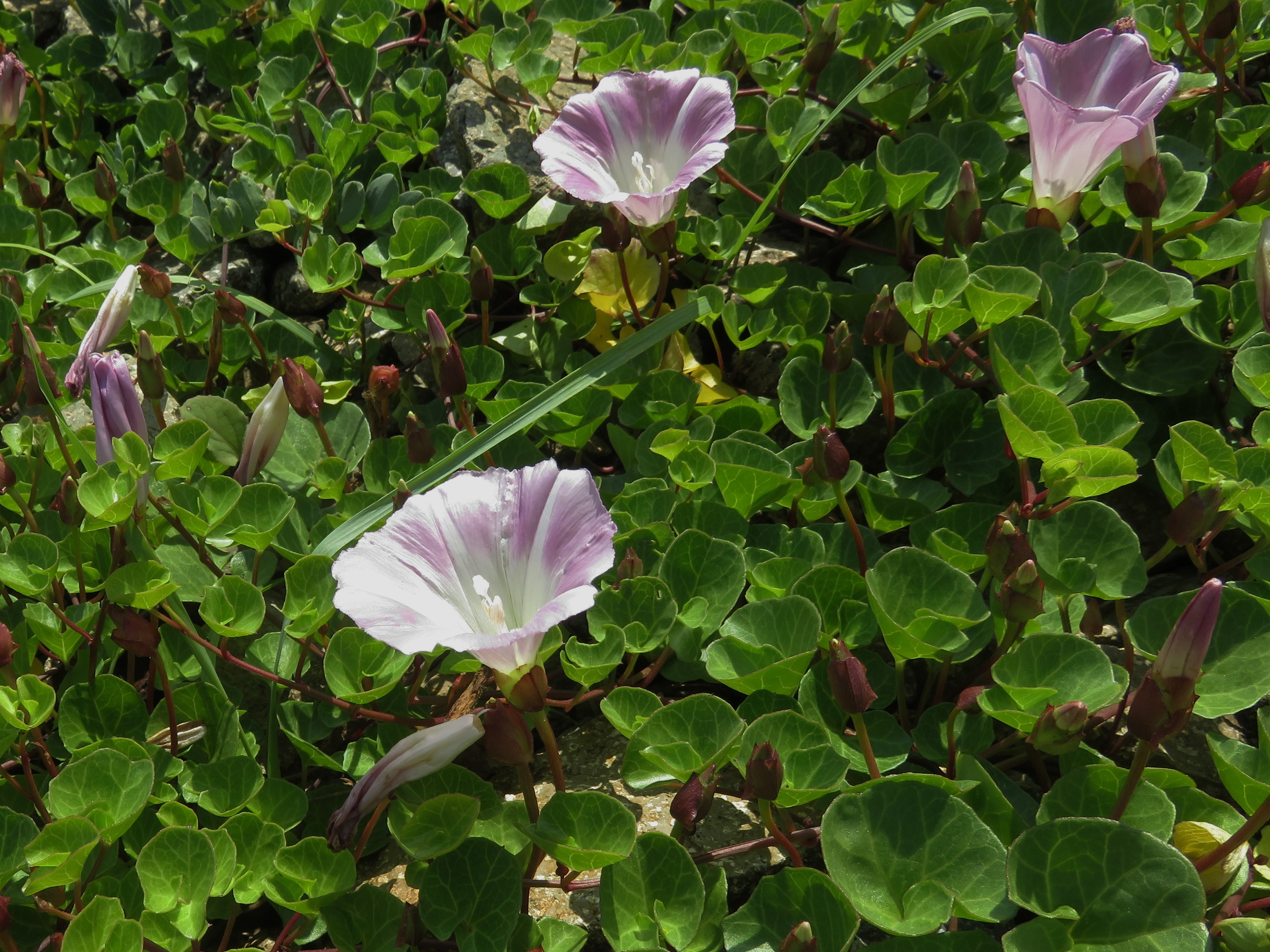 Calystegia soldanella, Tanesashi Coast, Aomori pref., Japan